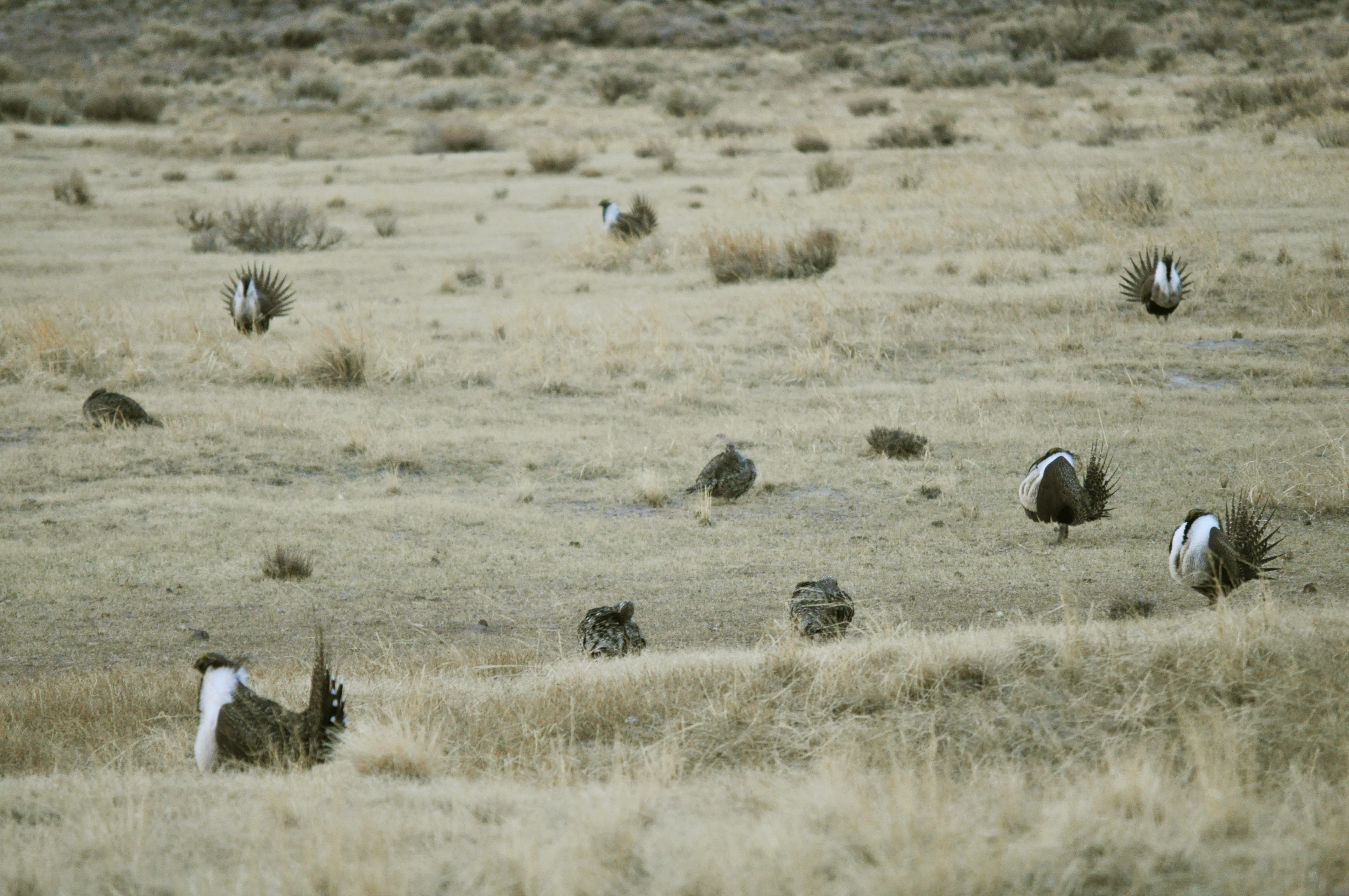 Greater sage-grouse lek near Bodie, California. (Jeannie Stafford/USFS)